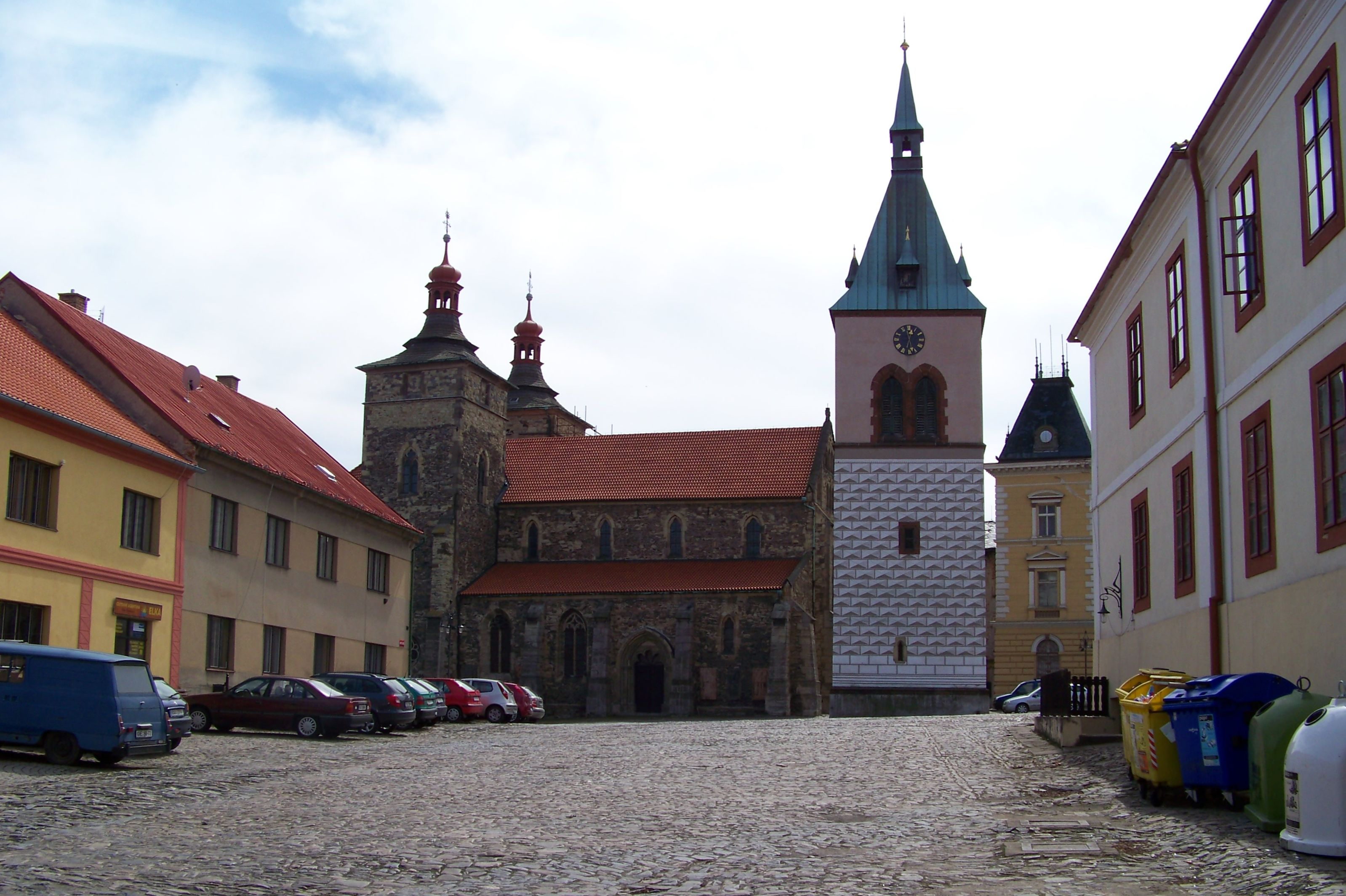 Kouřim, Kolín District, Central Bohemian Region, the Czech Republic. Freedom Square, Saint Stephen Church and a bell tower.